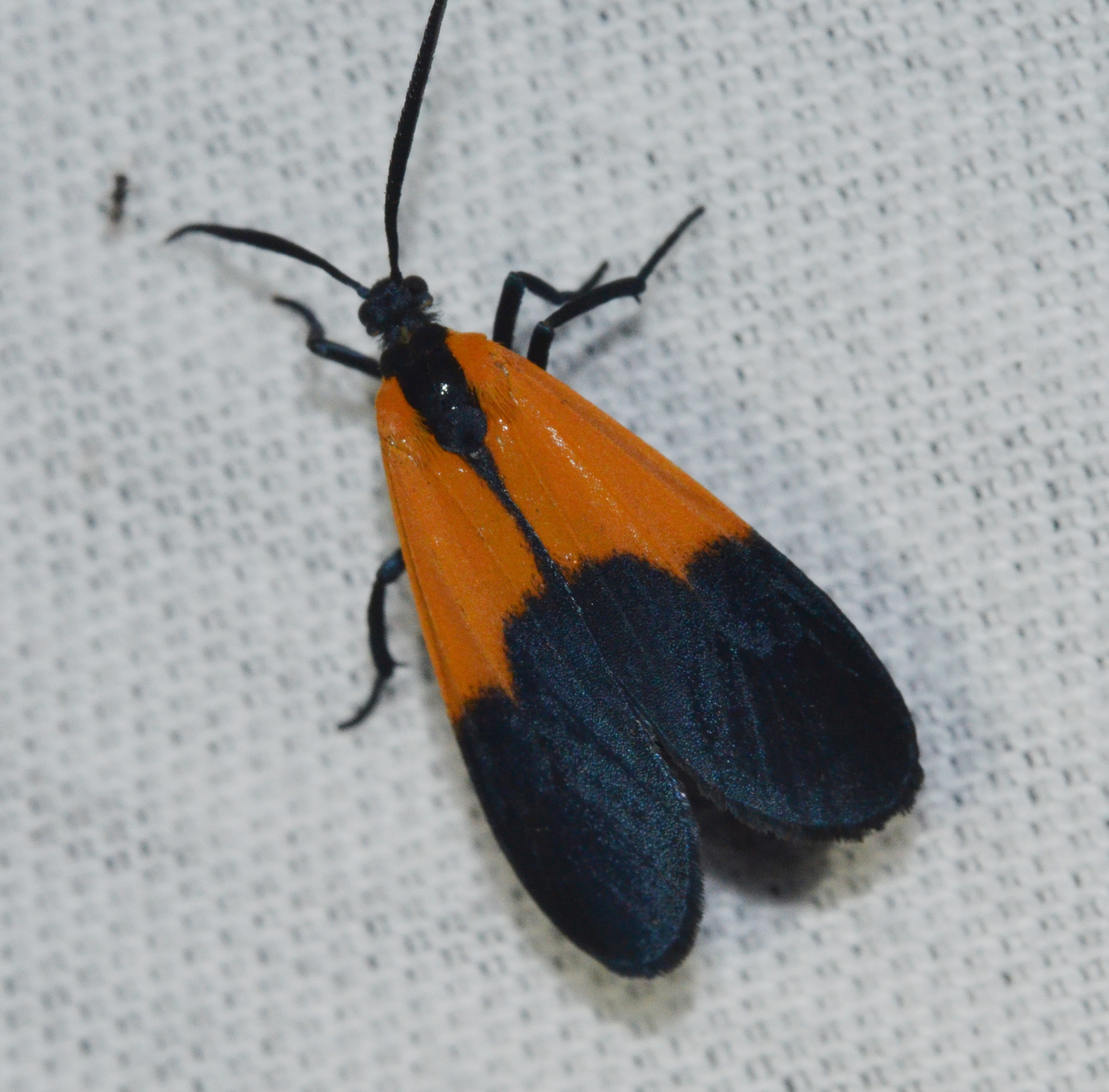 Mothing Night 6/16/14